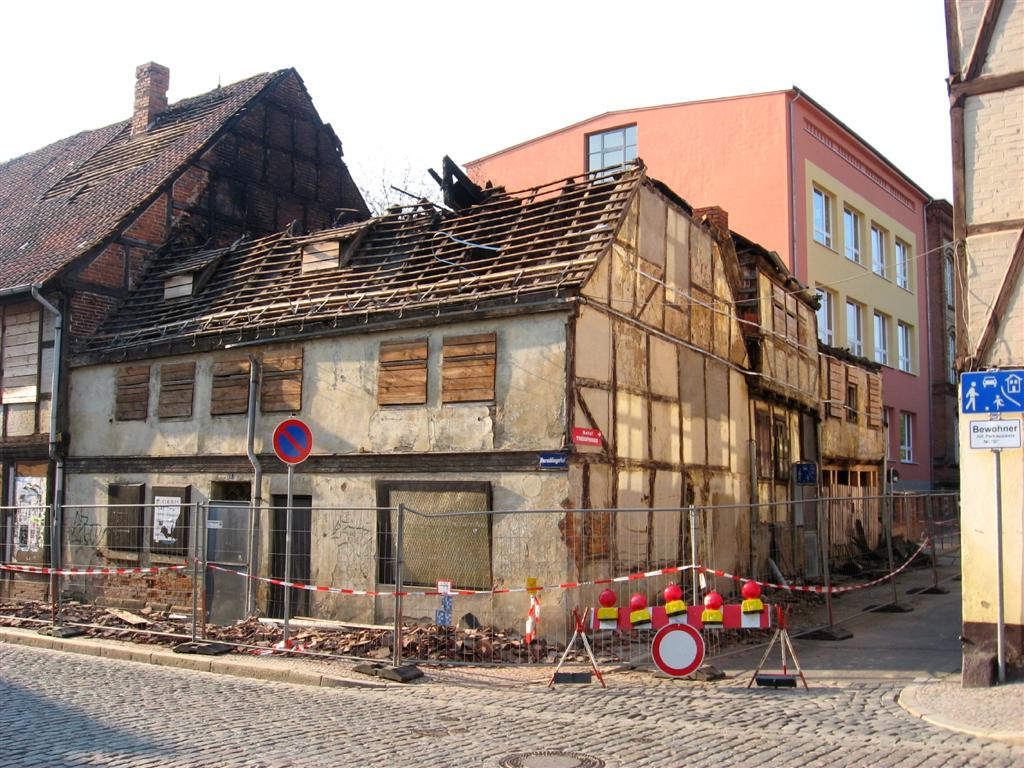 Building in Quedlinburg / Germany